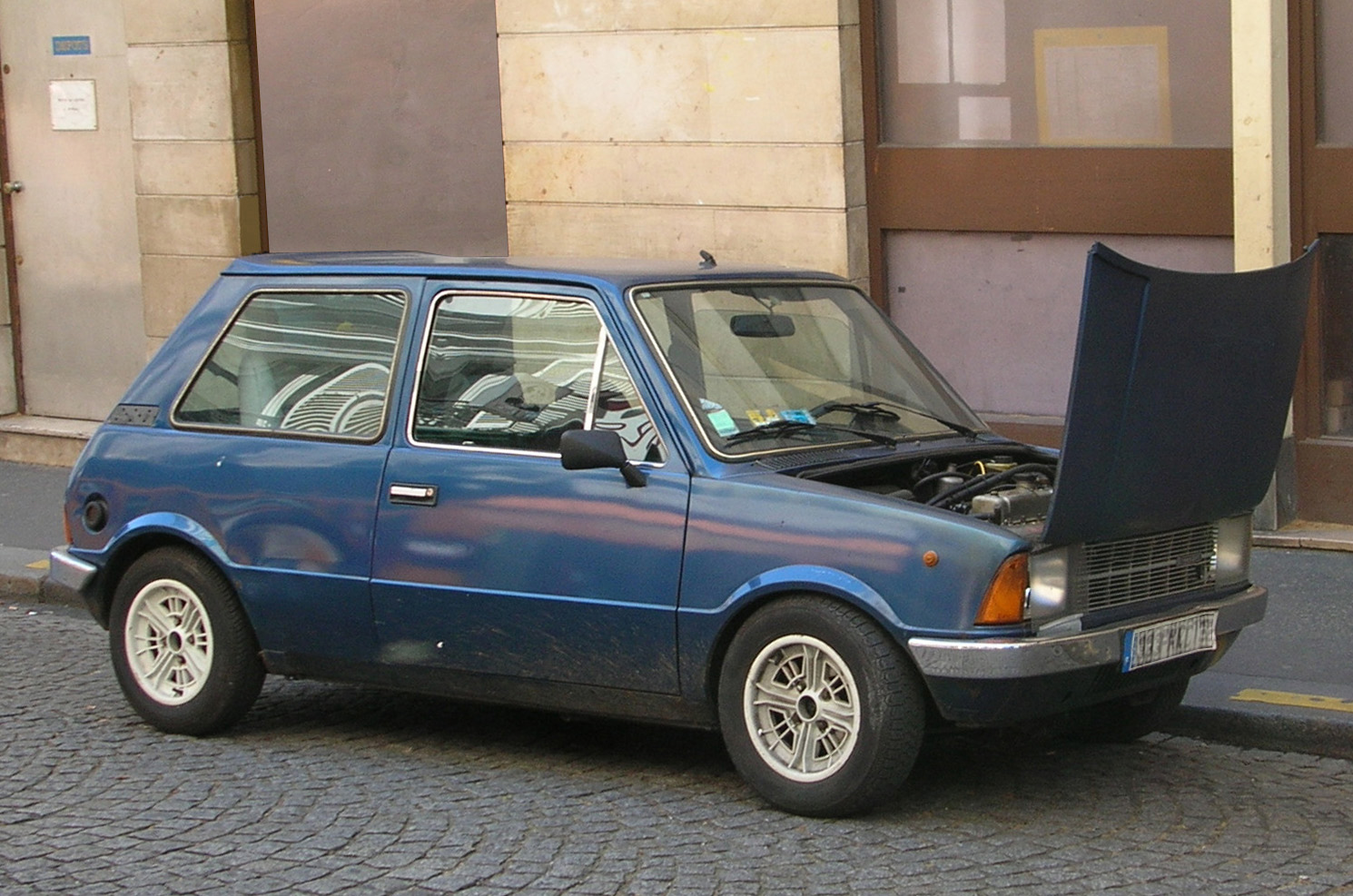 Innocenti 90 or 120 Mini derived vehicle showing A-series engine taken in Paris, France